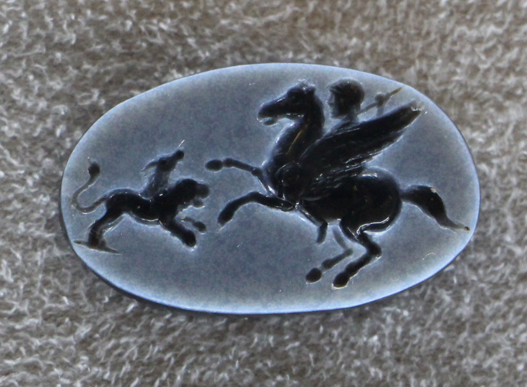 Ancient Roman glyptics in the Museo archeologico nazionale (Florence)